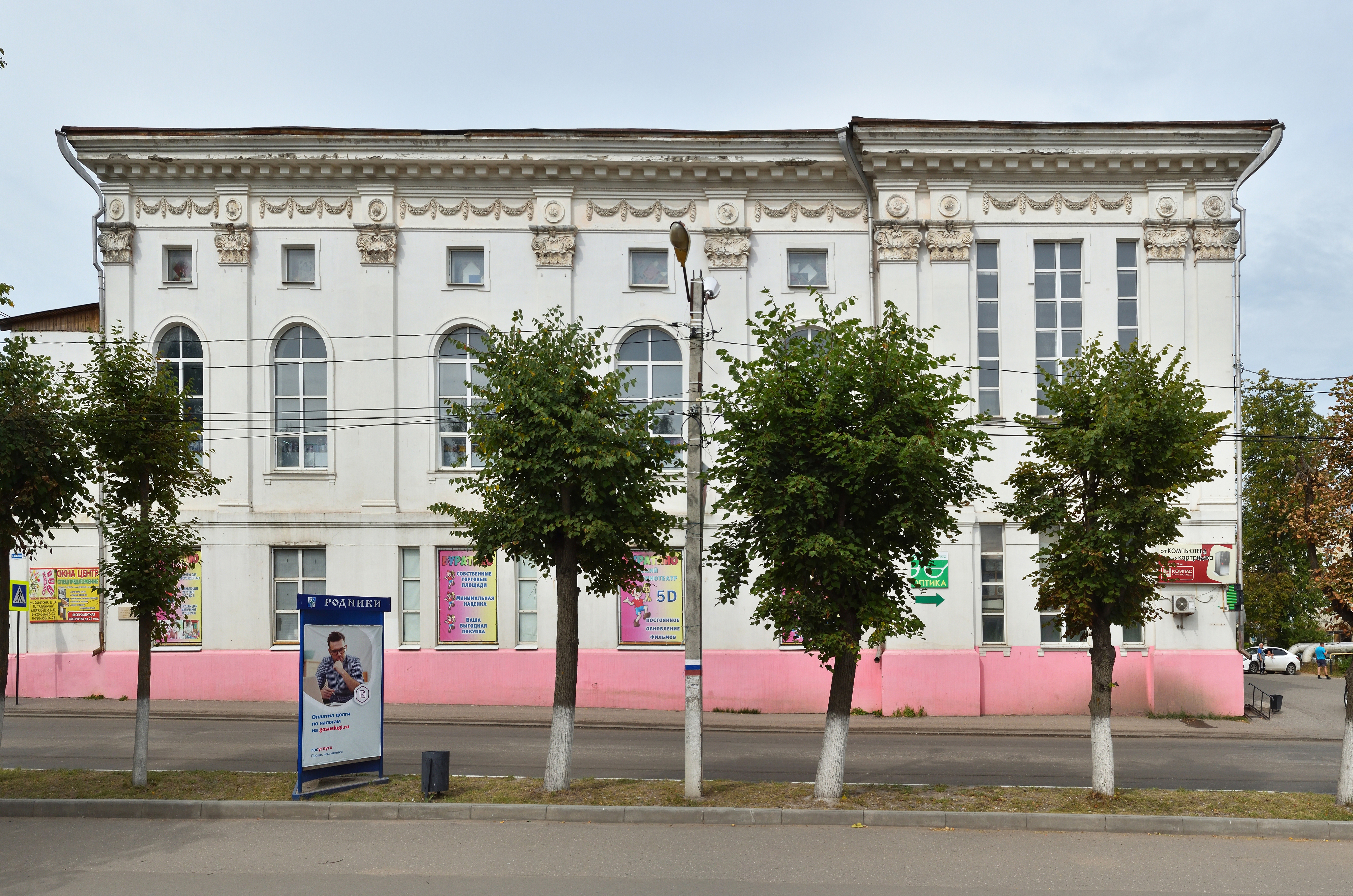 Sovetskaya street 14, Rodniki, Ivanovo oblast, Russia